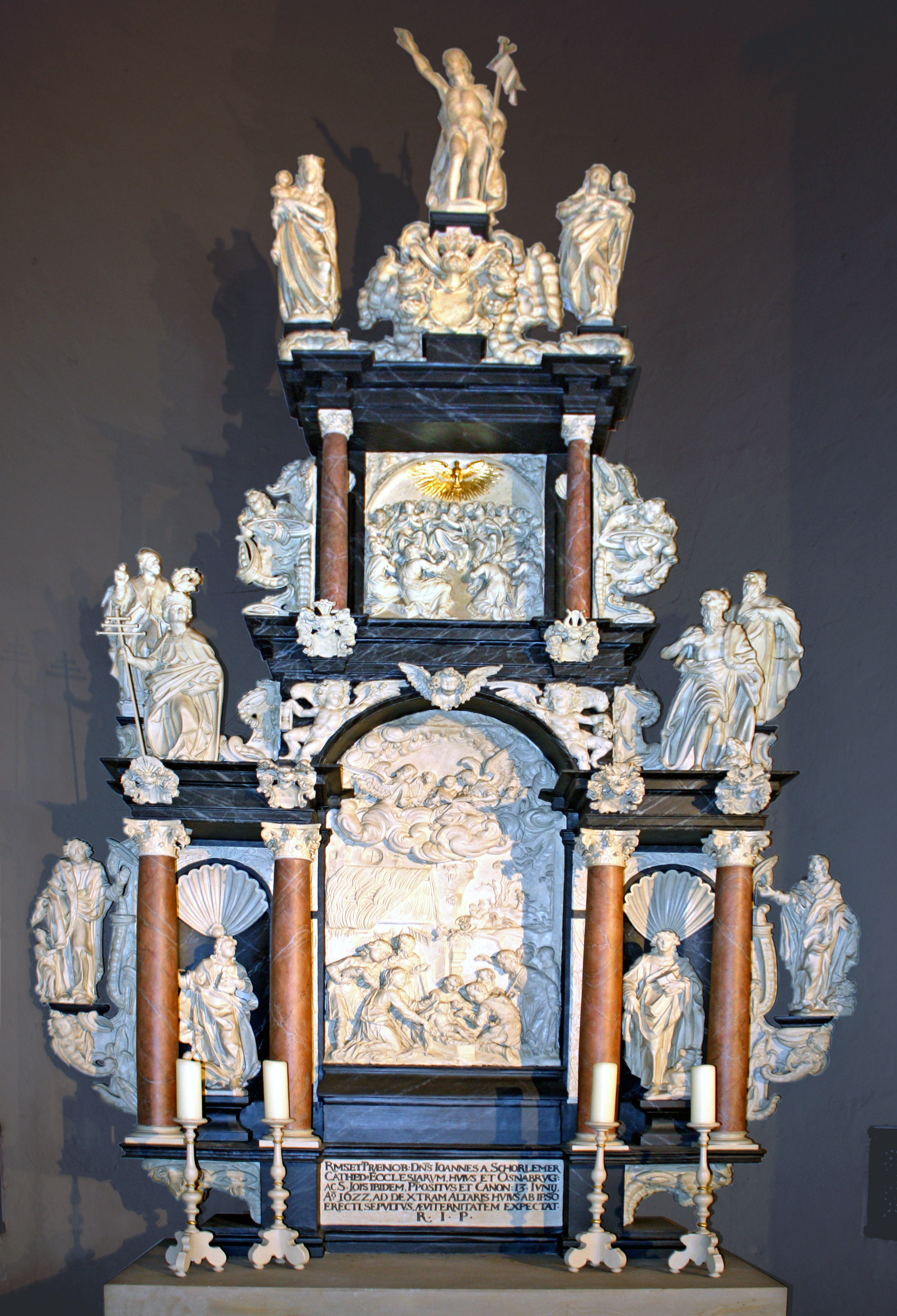 Cathedral in Minden, District of Minden-Lübbecke, North Rhine-Westphalia, Germany.